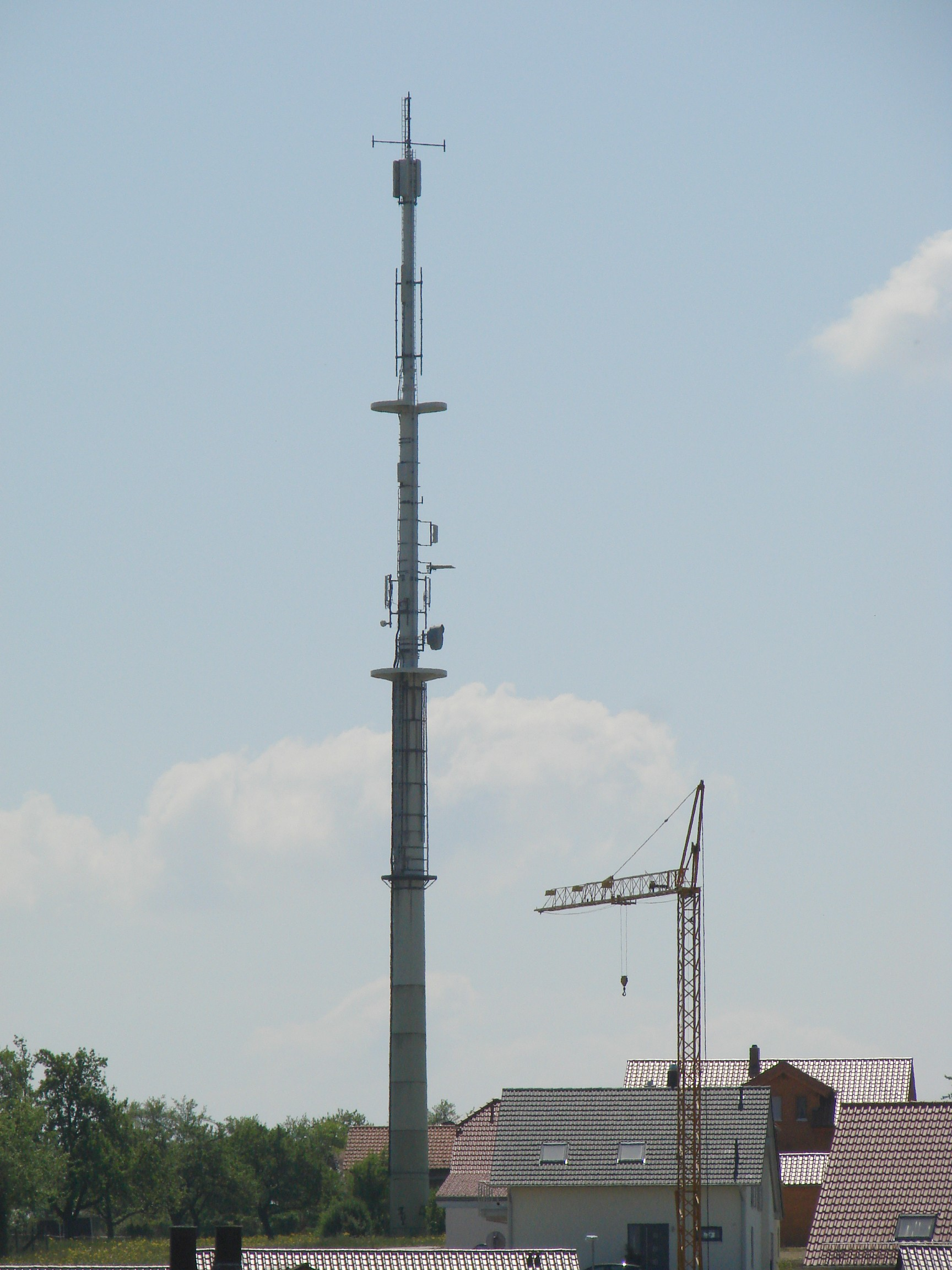 cellphone antenna pole in Wimsheim, Germany